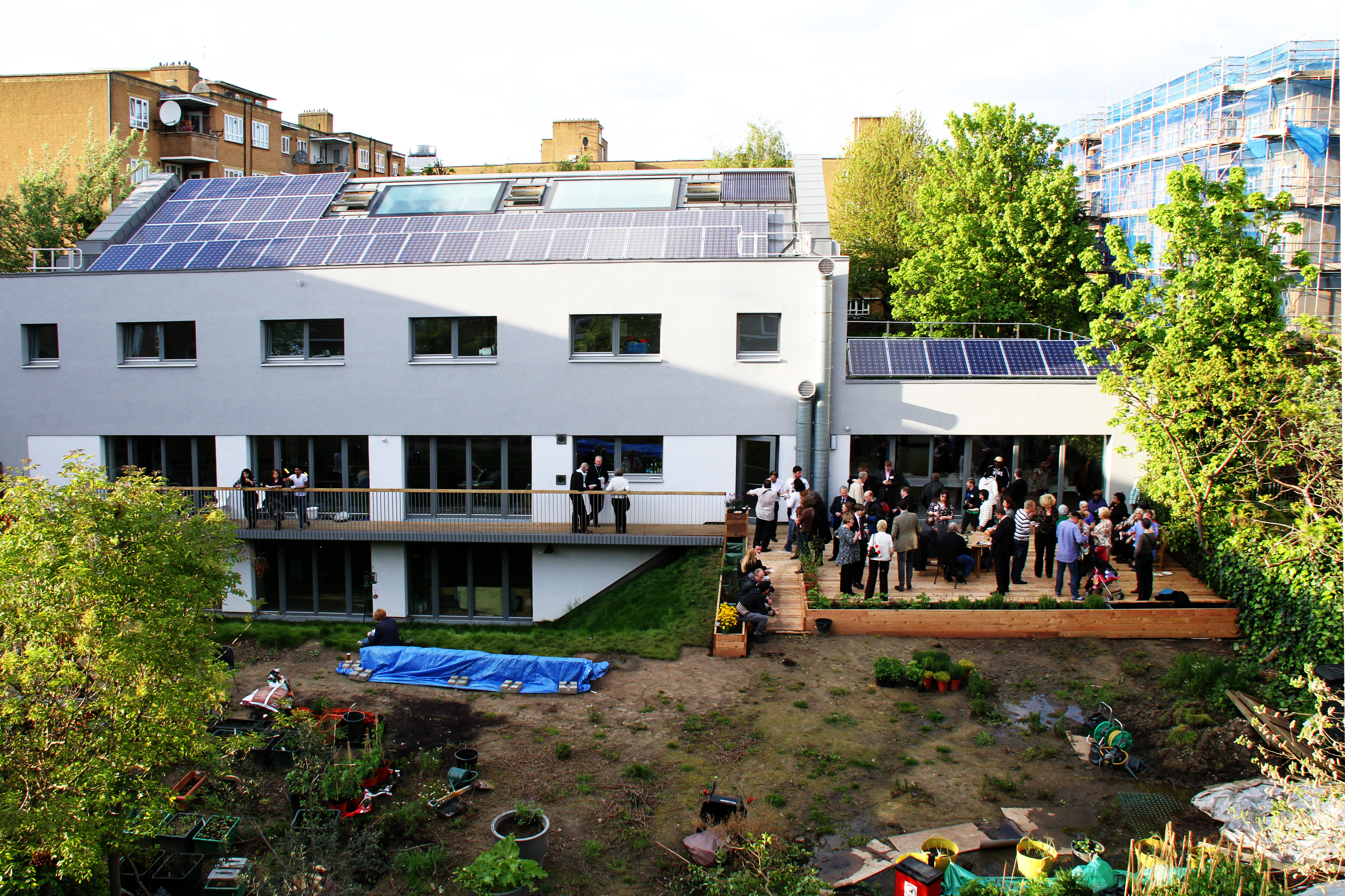 Photograph of bere:architects Mayville Community Centre, designed by Justin Bere.